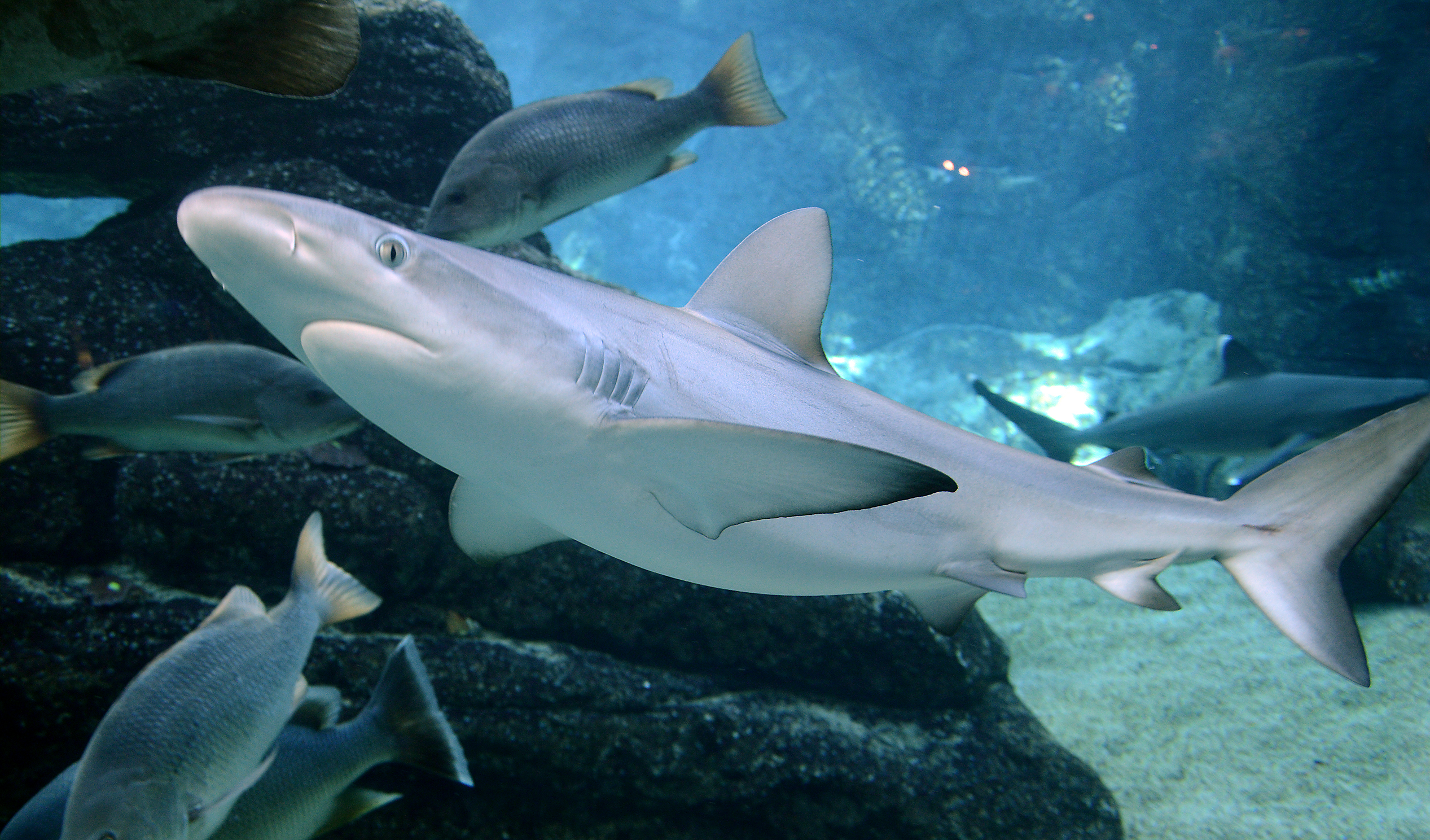 A blacktip shark (Carcharhinus limbatus) in UShaka Sea World